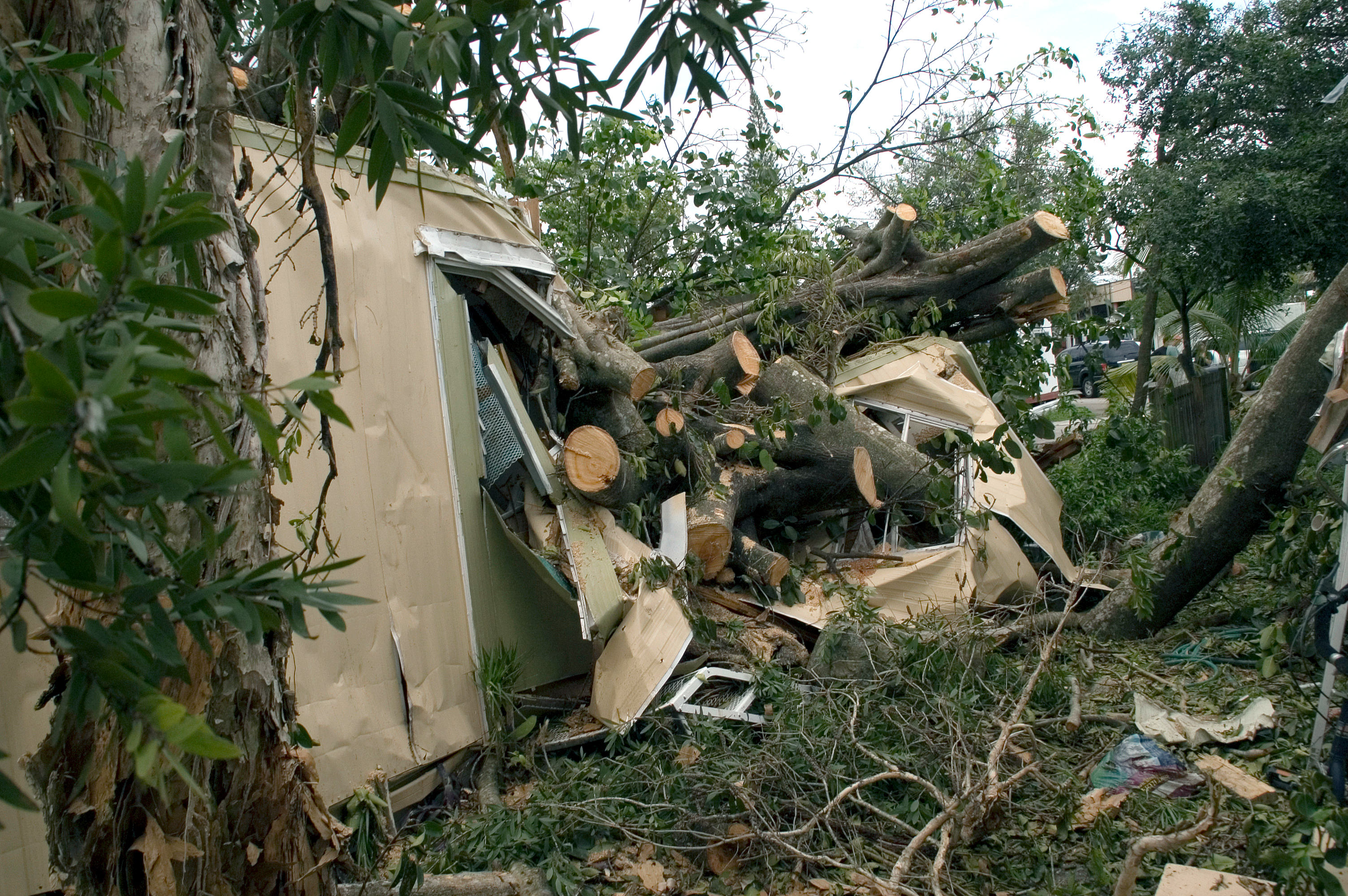 Davie, Fla., August 27, 2005 -- Winds from Hurricane Katrina knocked over this tree crushing this mobile home. The residents had evacuated. Many mobile homes homes are damaged and residents are displaced. Marvin Nauman/FEMA photo